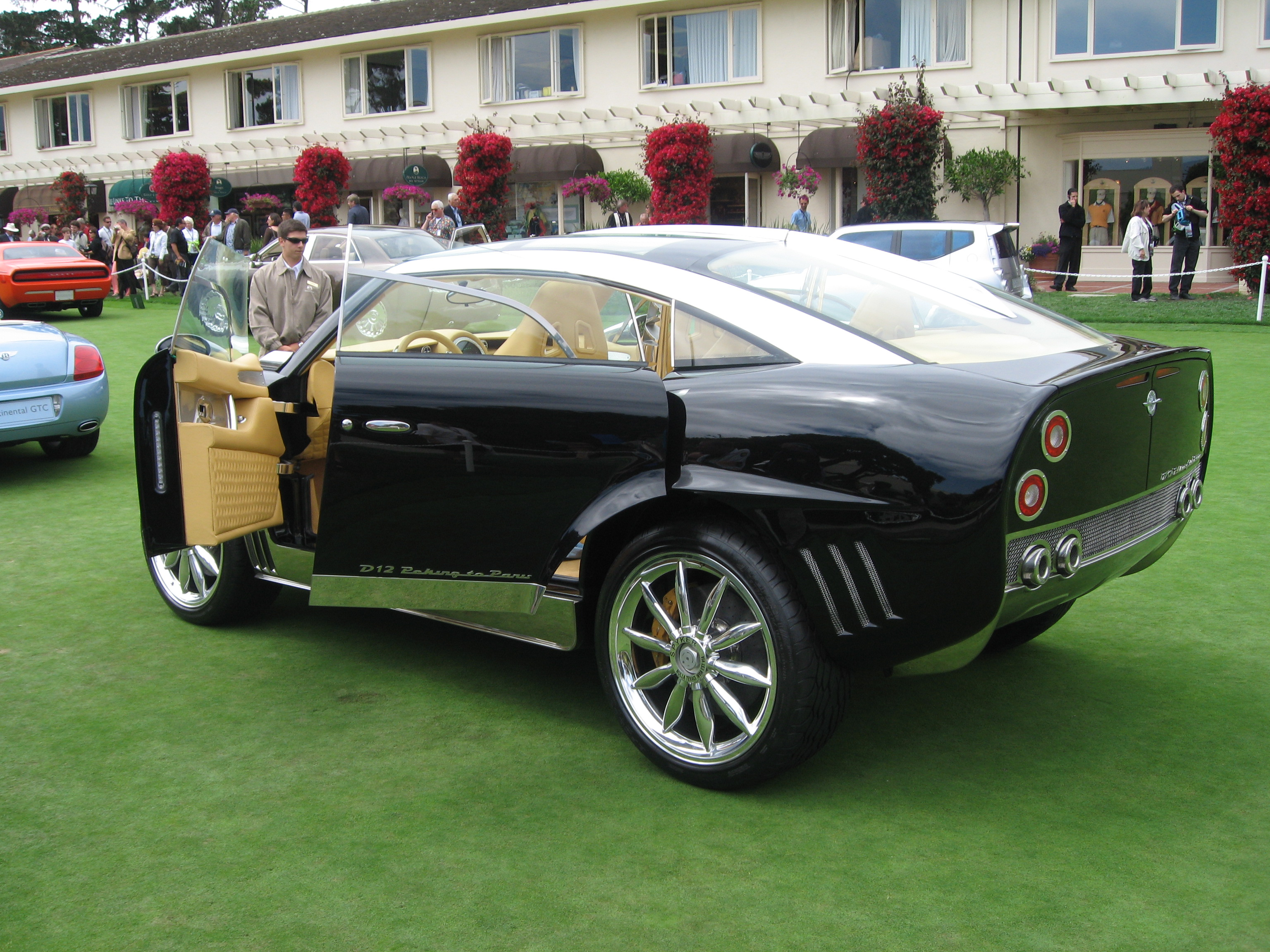 Picture from back of a Spyker D12.